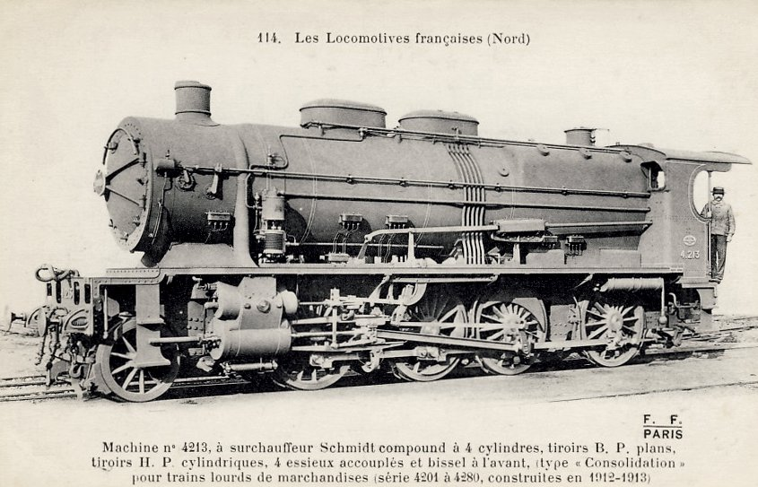 Steam locomotive Nord 140 4213, 1912